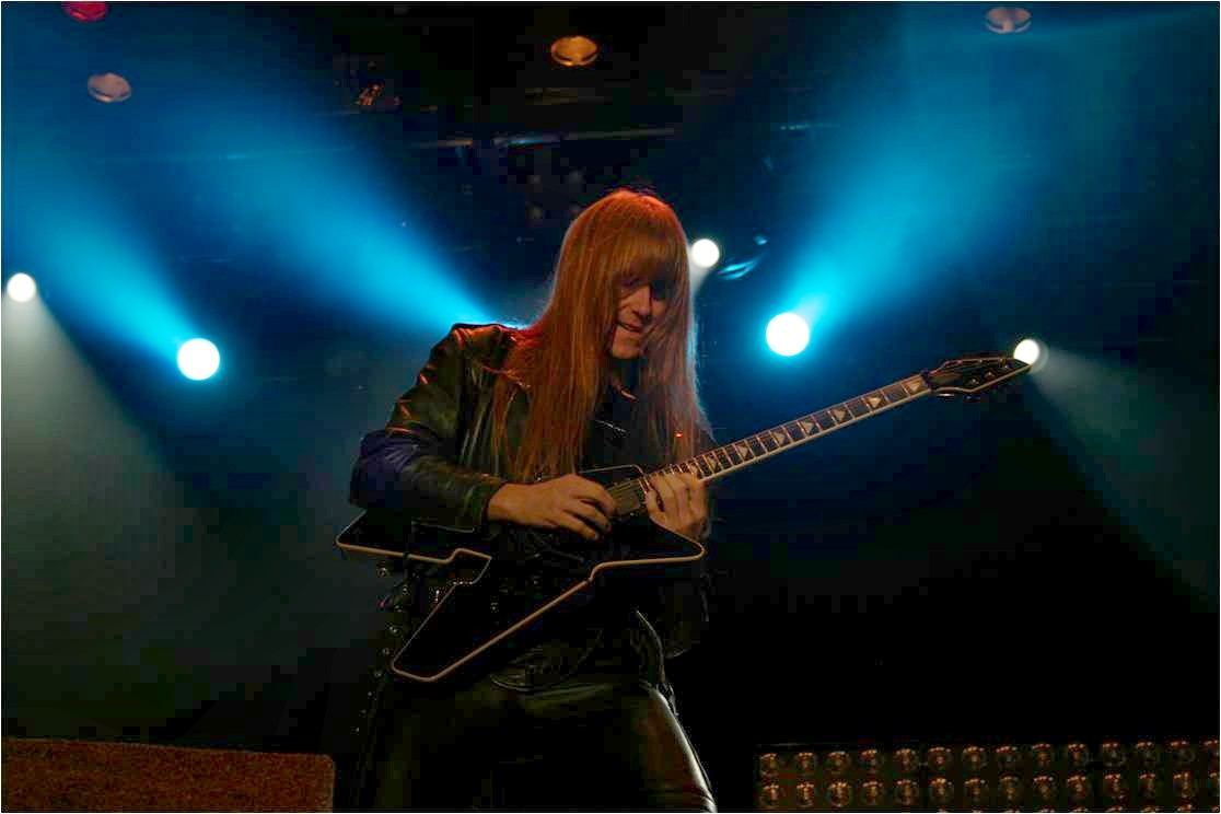 Karl Logan from Manowar at Norway Rock Festival 2009